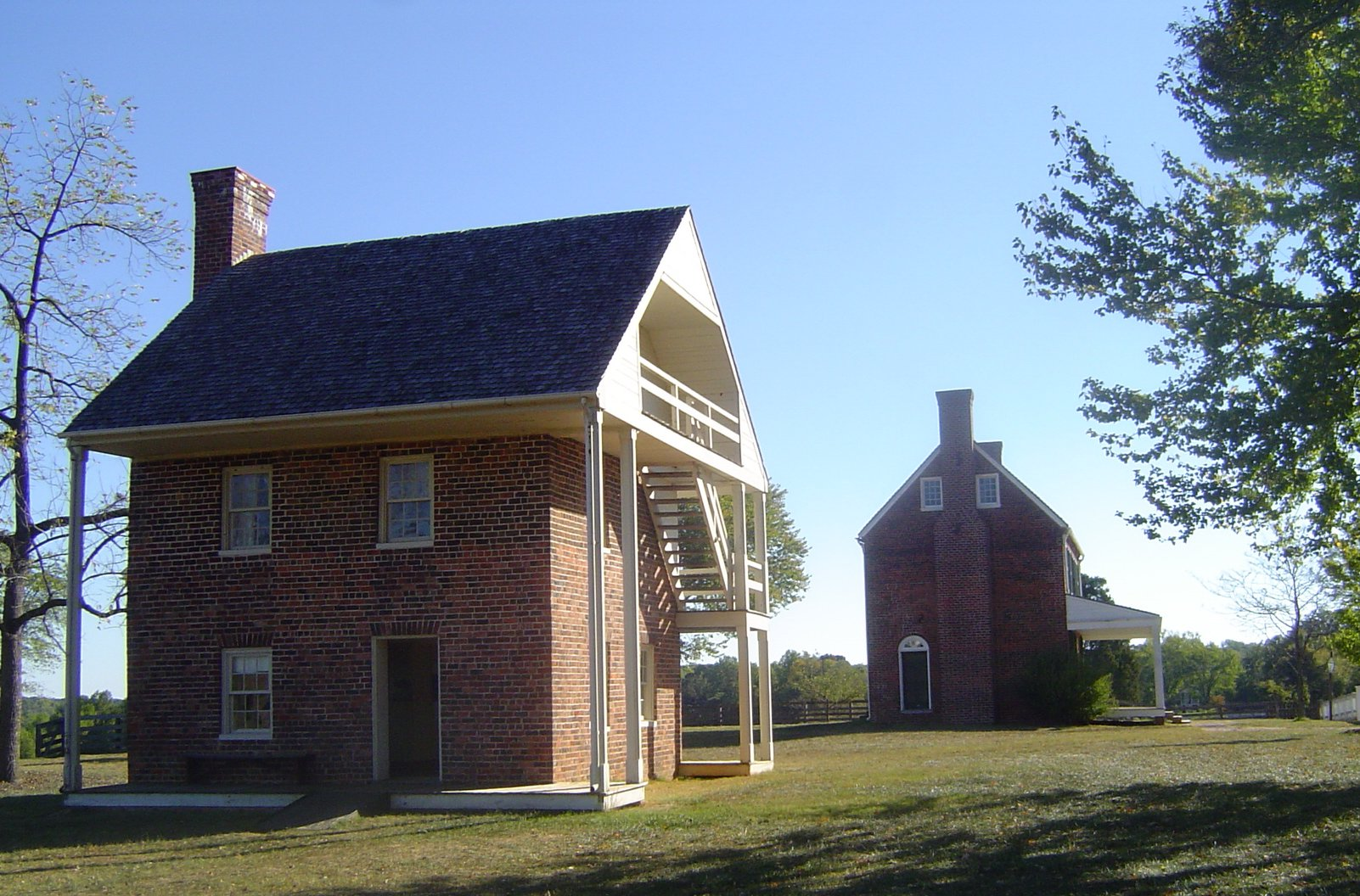 Clover Hill Tavern and guest house in the Appomattox Court House National Historical Park